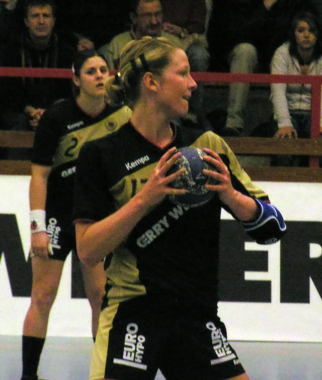 Nadine Krause, during an international match Germany - Spain in Darmstadt (Hesse)